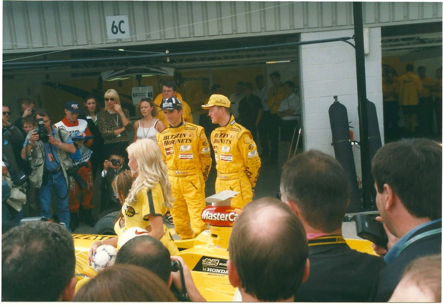 British Grand Prix 1998